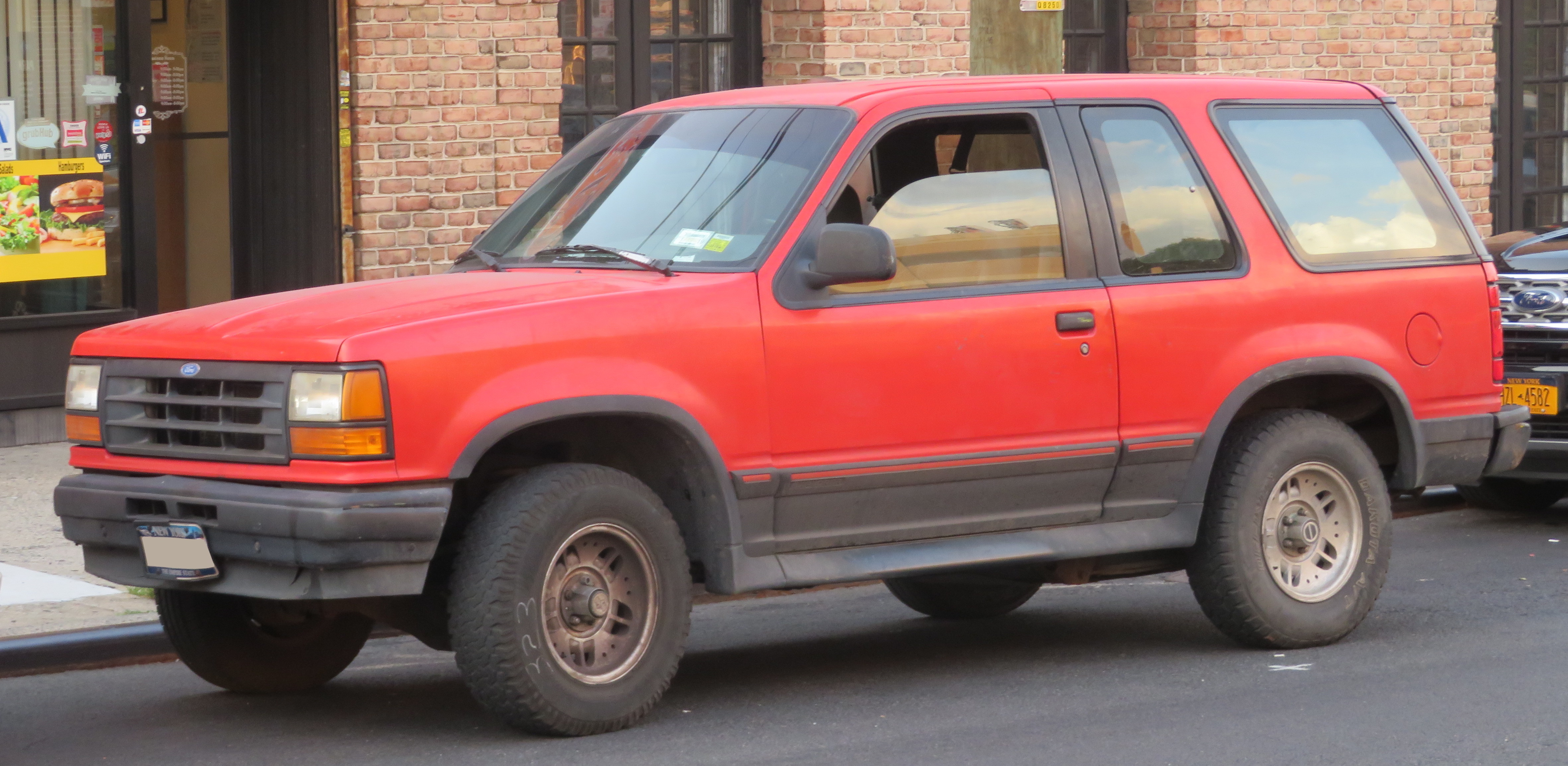 Photographed in Queens, New York